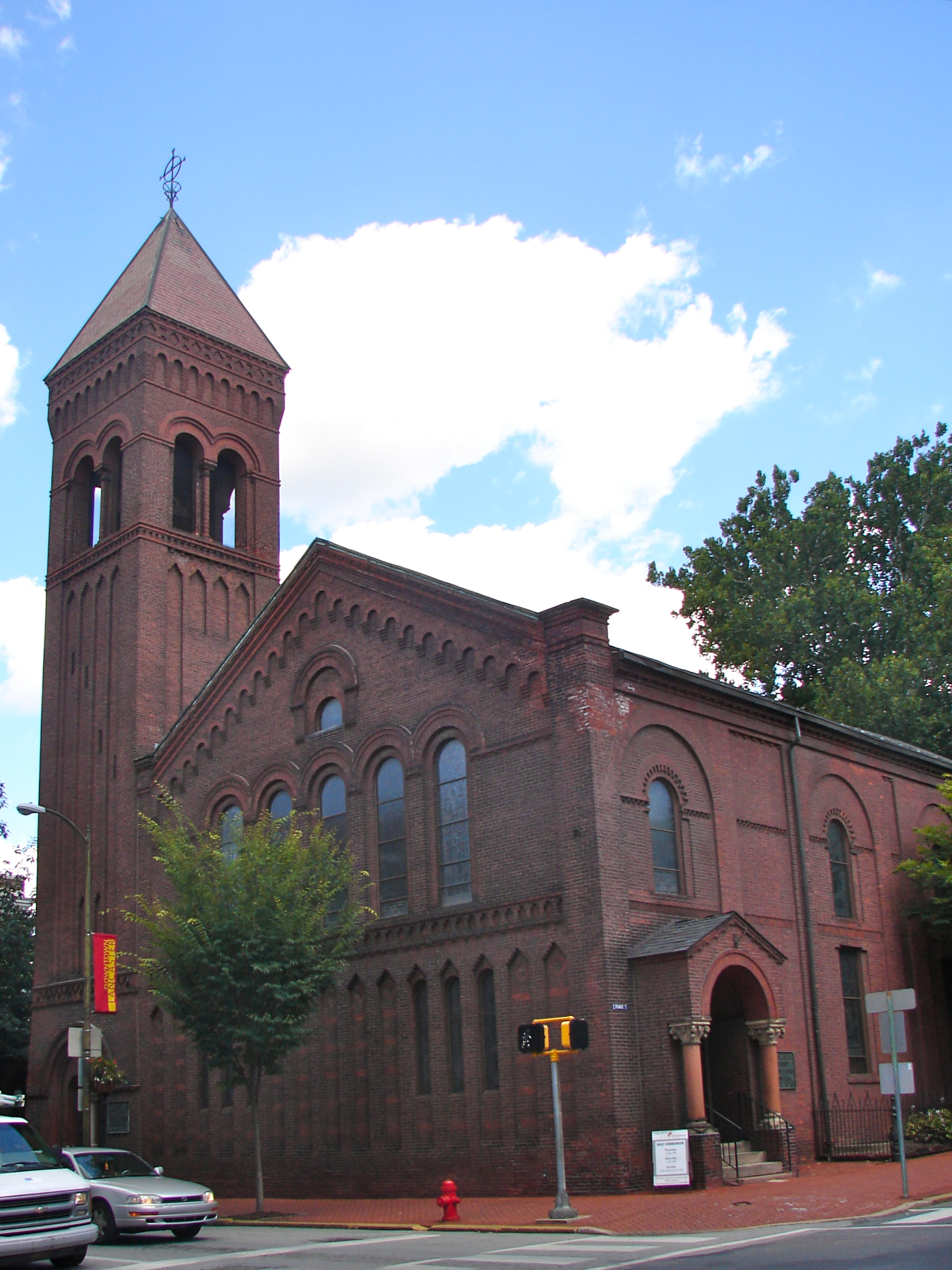 St. James Episcopal Church in Lancaster, Pennsylvania. Church founded 1744, but this building is later. Part of the Lancaster Historic District on the NRHP since November 15, 1979. The historic district is roughly bounded by Howard Avenue, Queen, Church, Duke, Chestnut and Plum Streets